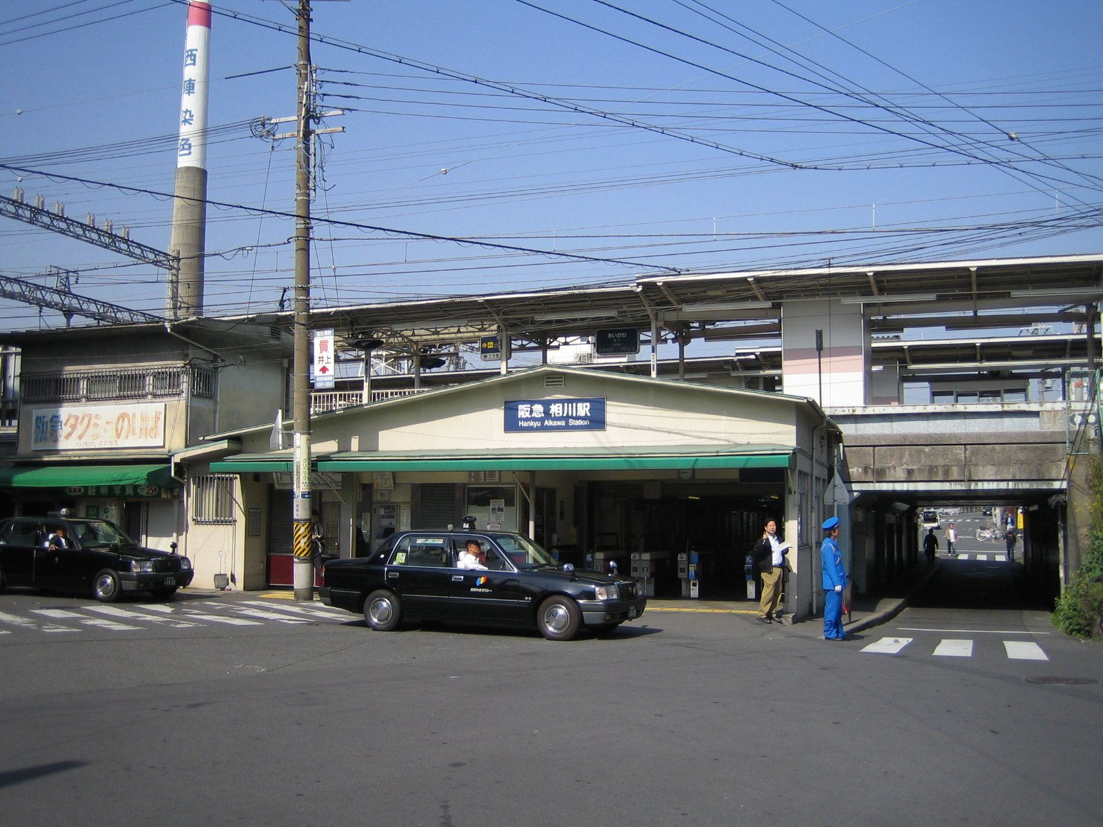 Hankyu Railway Aikawa Station entrance